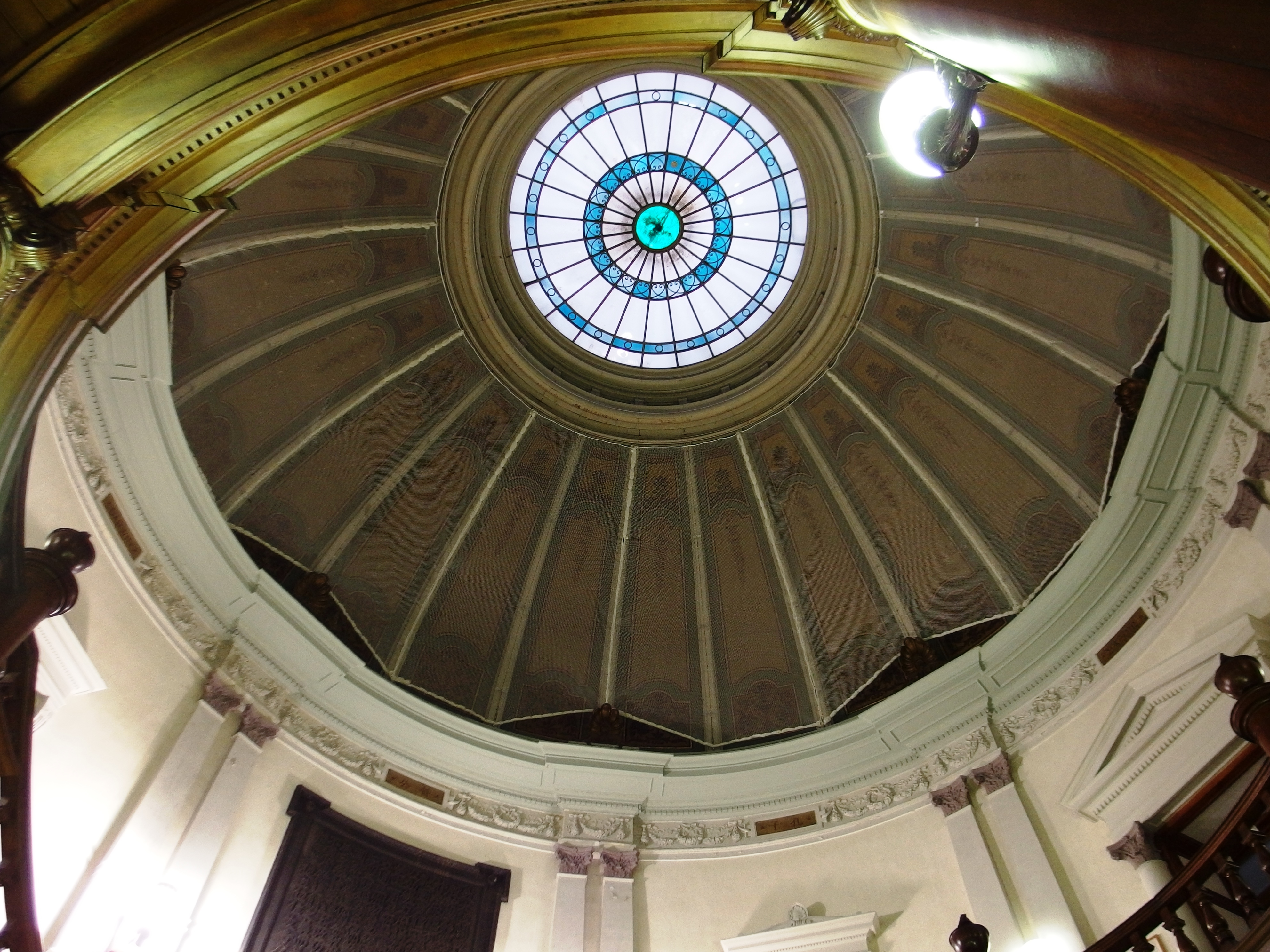 Osaka Prefectural Nakanoshima Library in Osaka, Osaka Prefecture, Japan